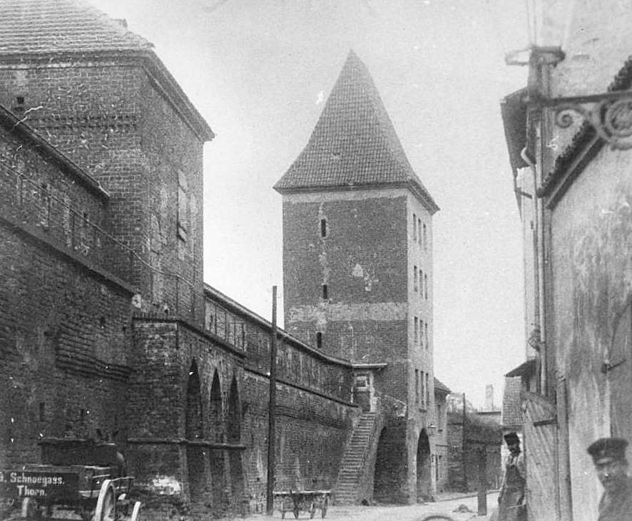 Chełmińska (Culm) Gate in Toruń, ruined in 1889